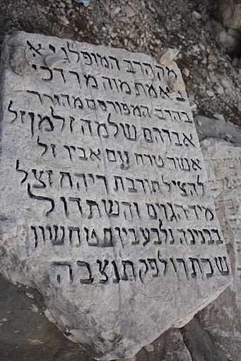 Mordechai Salomon grave in Mount of Olives Jewish Cemetery